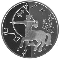 Coin of Ukraine